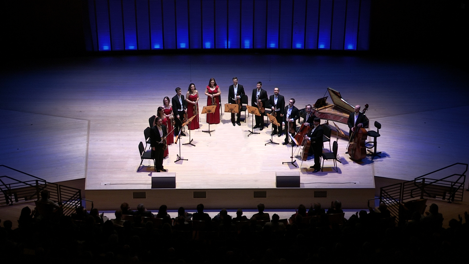 La orquesta momentos antes de empezar a tocar